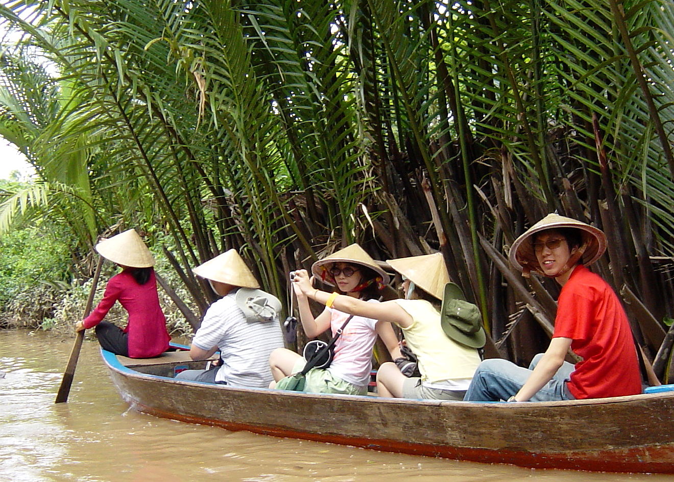 Boating a river in Vietnam